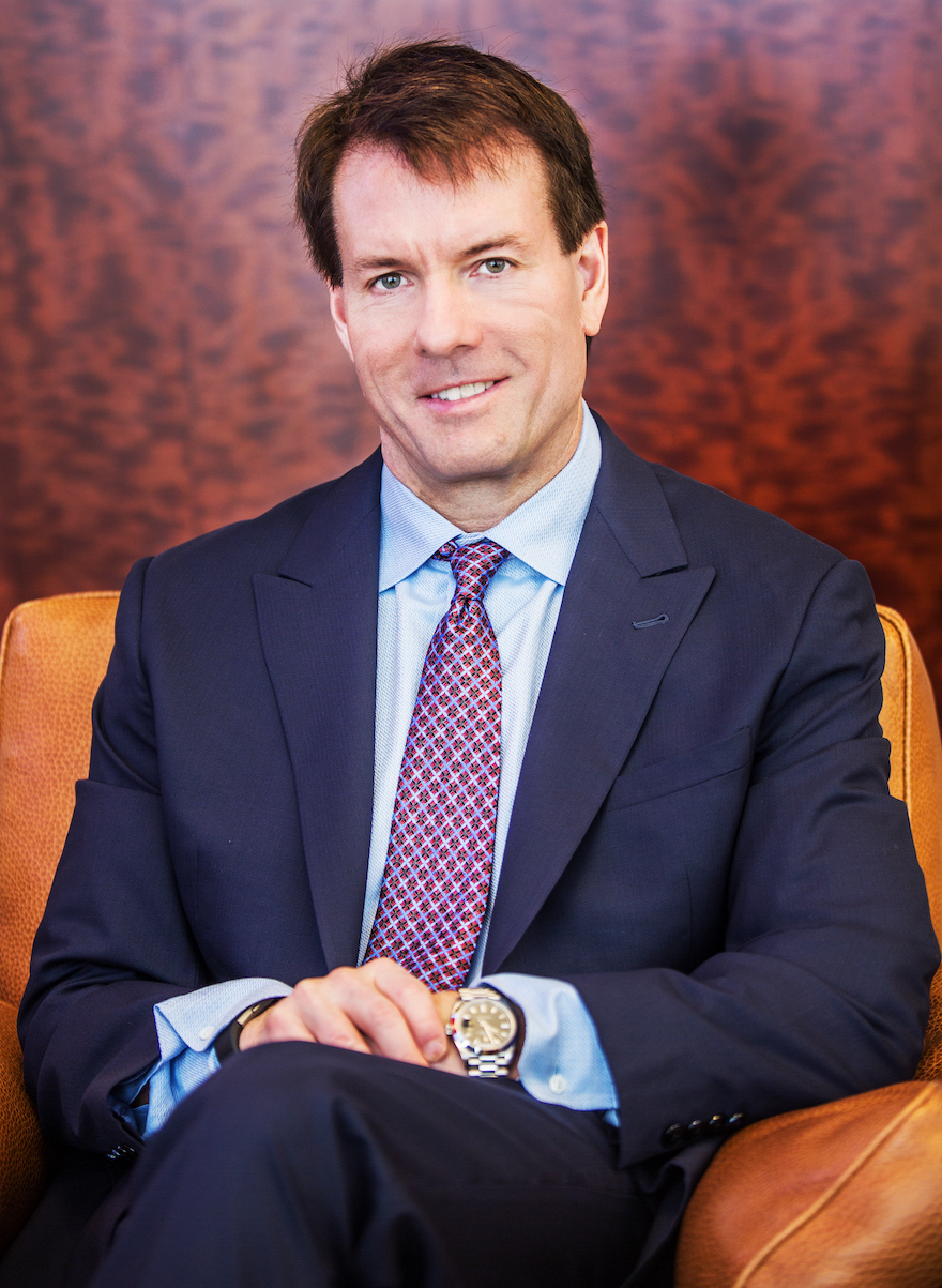 Recent headshot for Michael J. Saylor